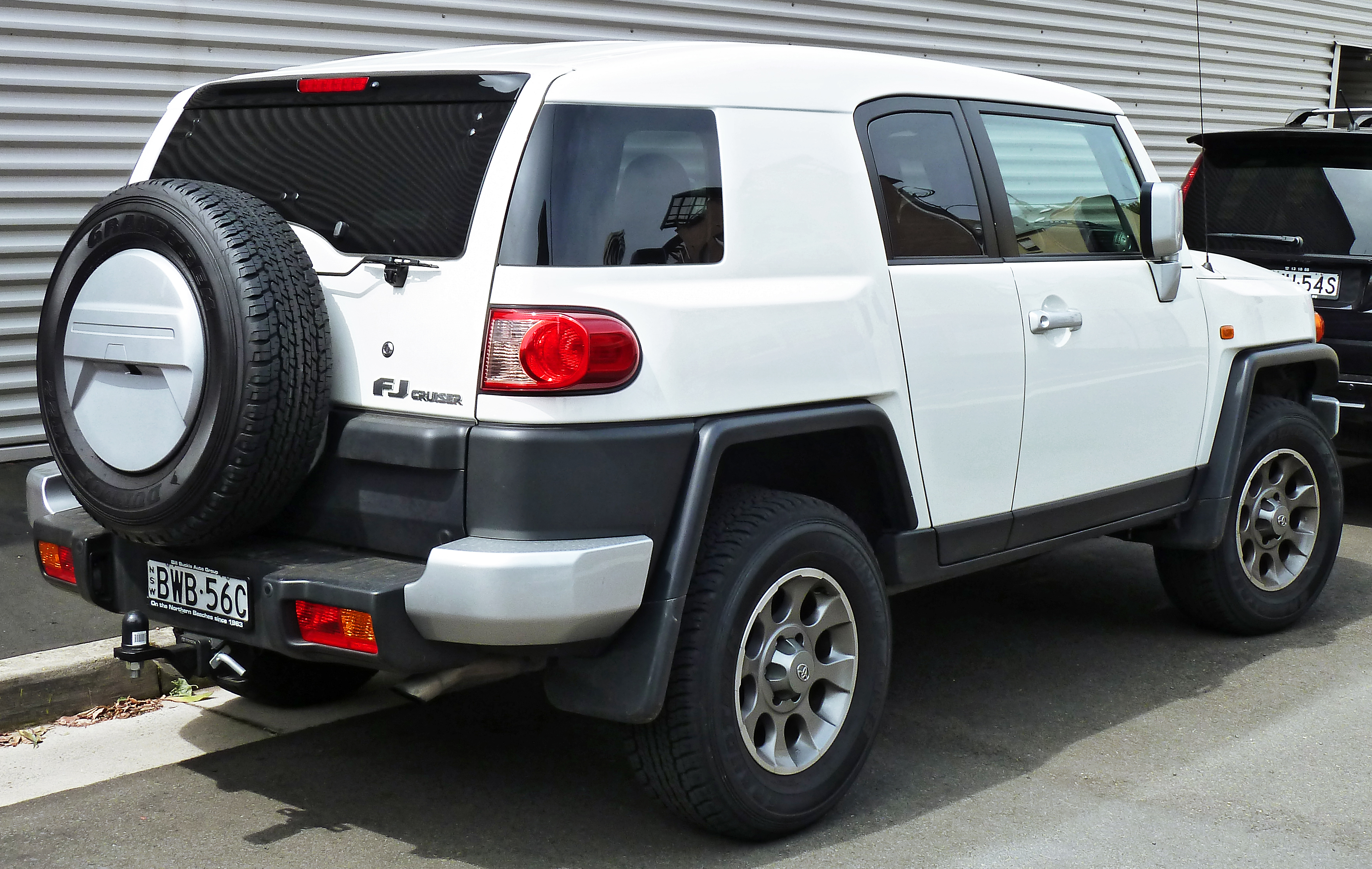 2011 Toyota FJ Cruiser (GSJ15R) wagon. Photographed in Woolloomooloo, New South Wales, Australia.